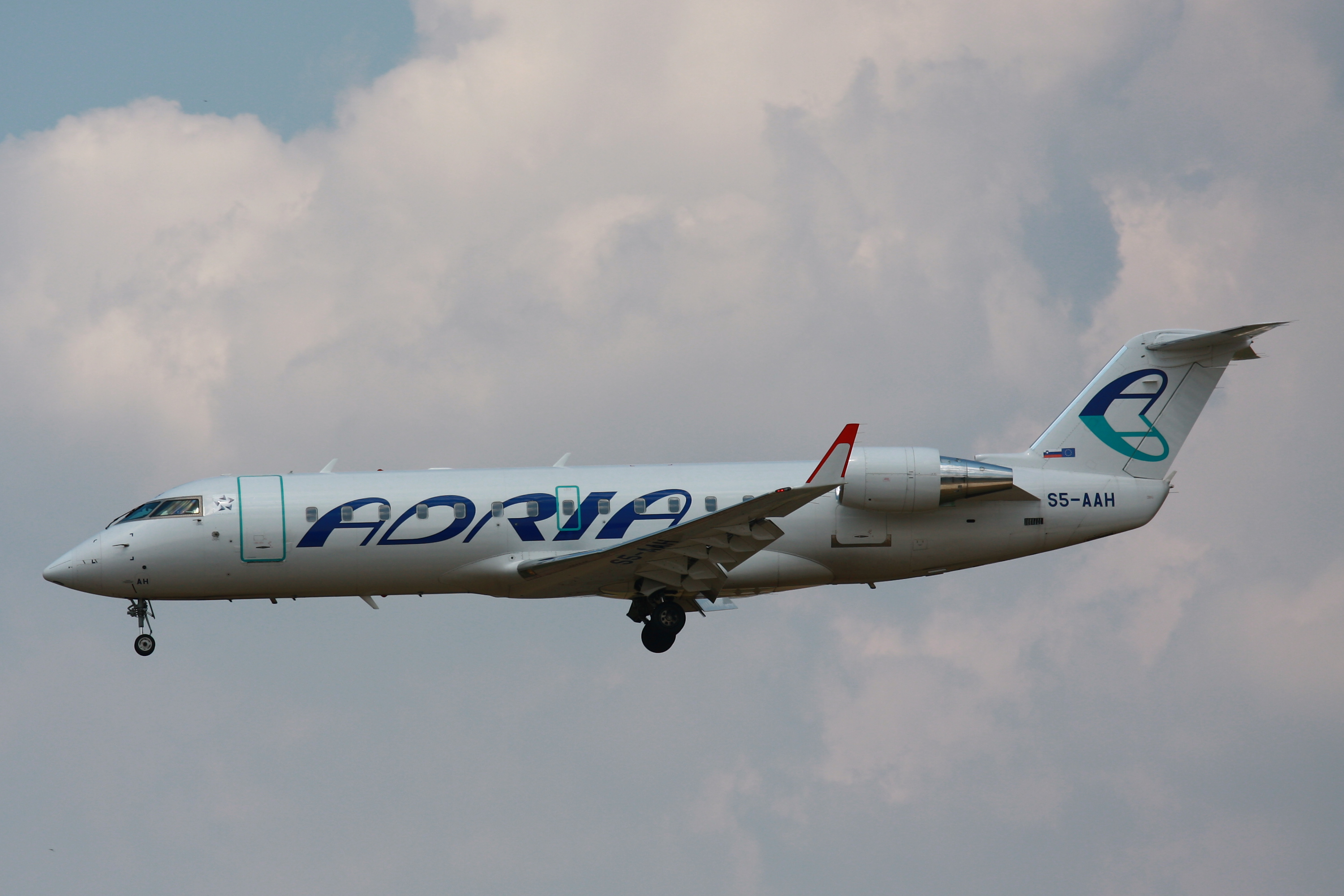 A CRJ 100 of Adria Airways landing at Frankfurt Airport